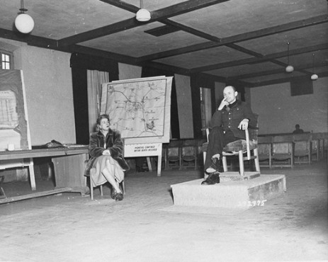 Former SS Colonel Gerhard Maurer testifies for the defense at the trial of former camp personnel and prisoners from Dora-Mittelbau. To the left is Emily Polyn-Cobb, an interpreter. [Photograph #43071]